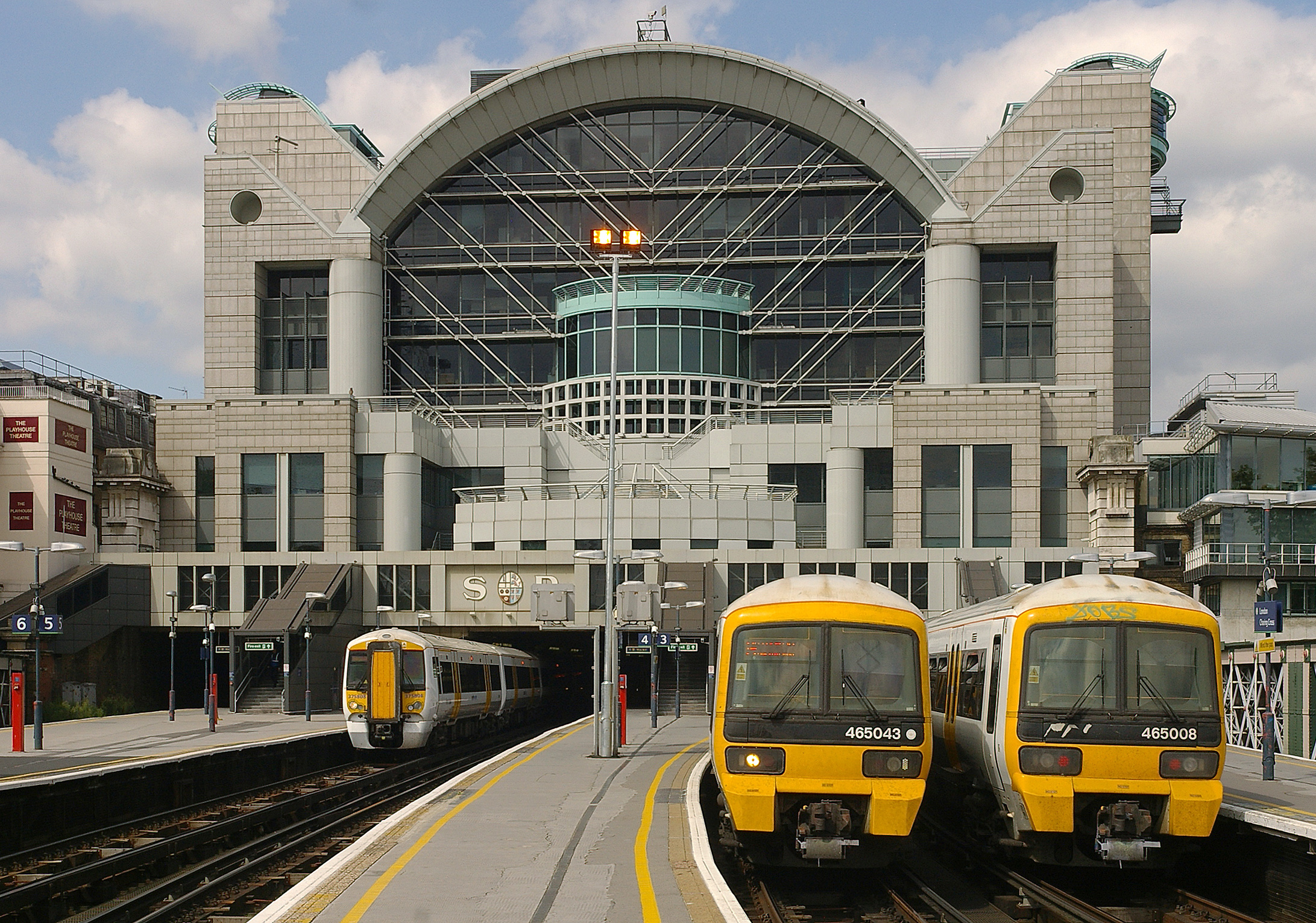 Southeastern units 375808, 465043 and 465008 at London Charing Cross railway station.